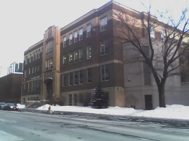 My own photo of 18 February 2007 from the westbound OC Transpo Bay Station in Ottawa on Albert Street. This is a view of the Ottawa Technical High School from the stop.